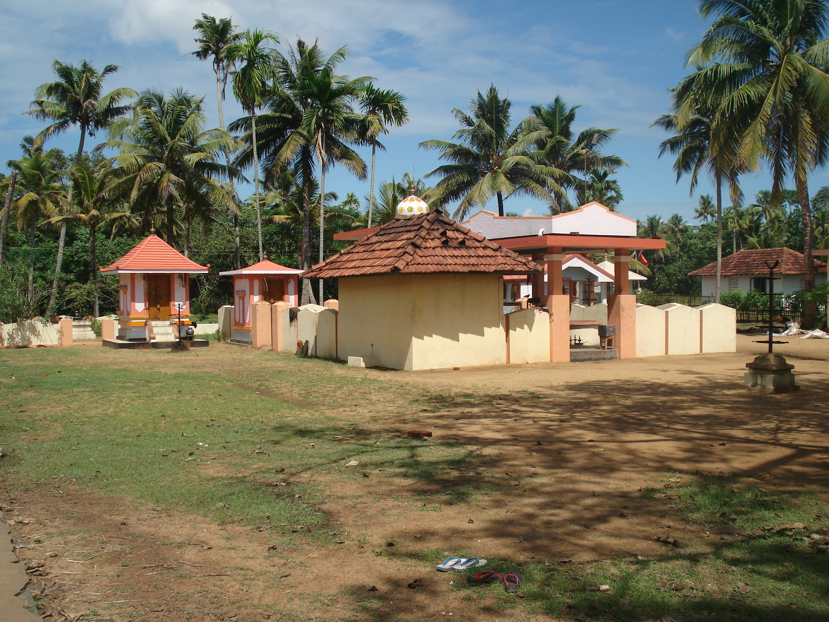 Akkarappadom Temple